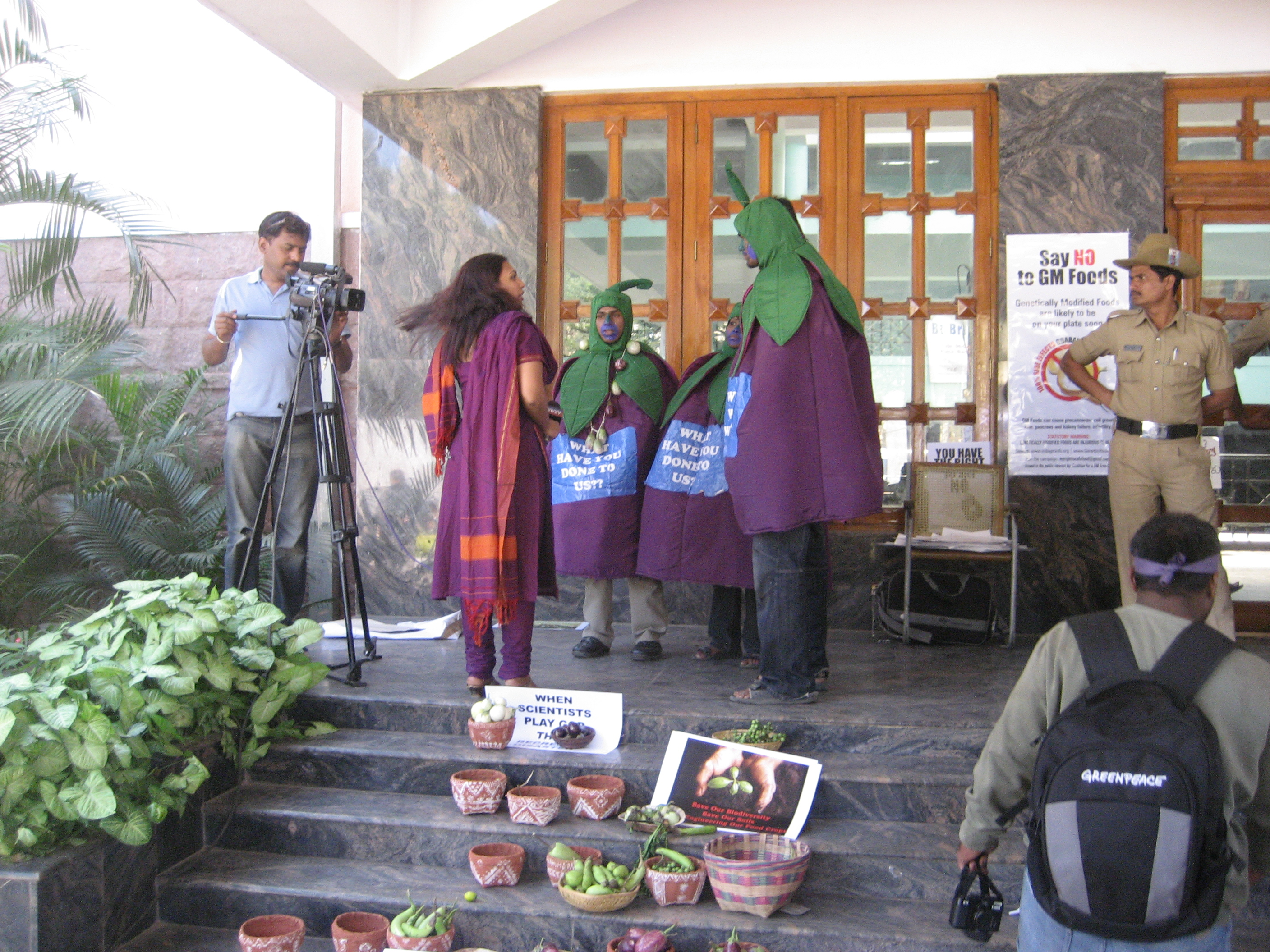 TV Interviewers with anti BT Brinjal activists outside of Bangalore stop of India's Environmental Minister's listening tour relating to the approval of this GE Food product by Monsanto/Mahyco.